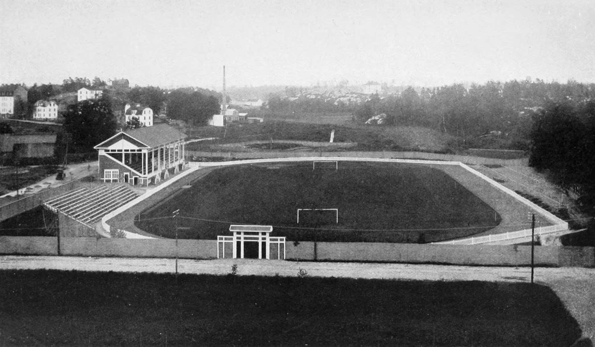 General view of the Råsunda athletic grounds, Stockholm